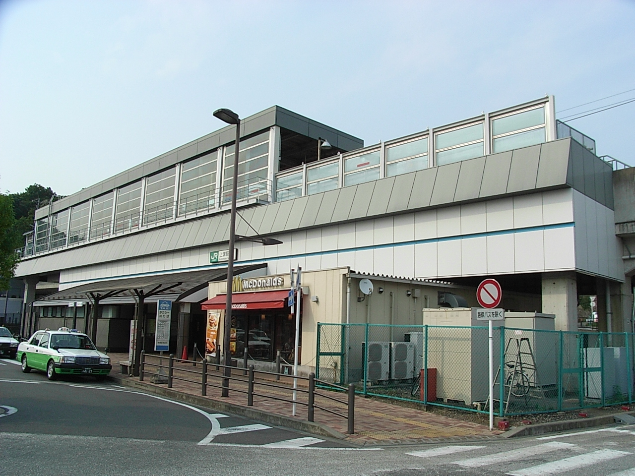 Kamimizo Station on JR Sagami Line. (19-13,Kamimizo 7-chome,Sagamihara-shi,Kanagawa-ken,JAPAN)